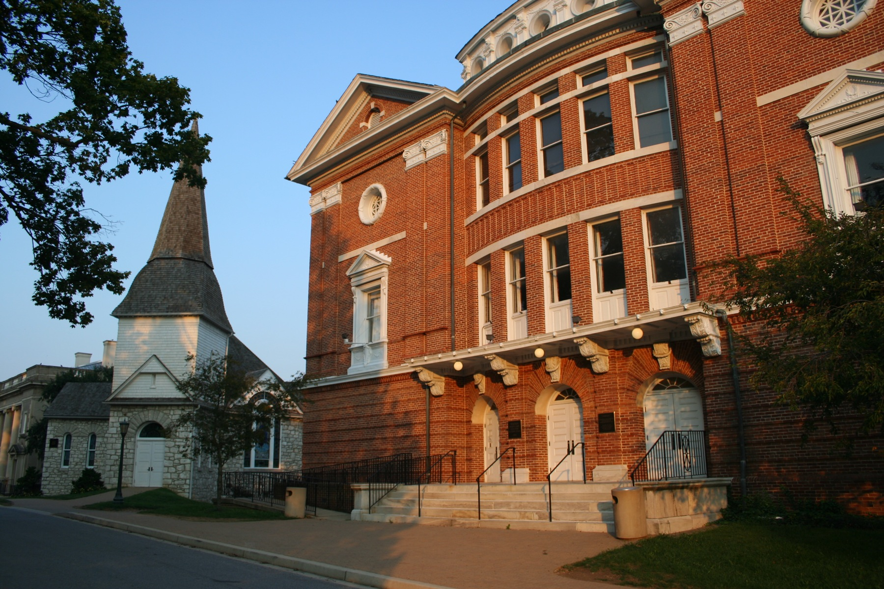 A view of a building at McDaniel College.